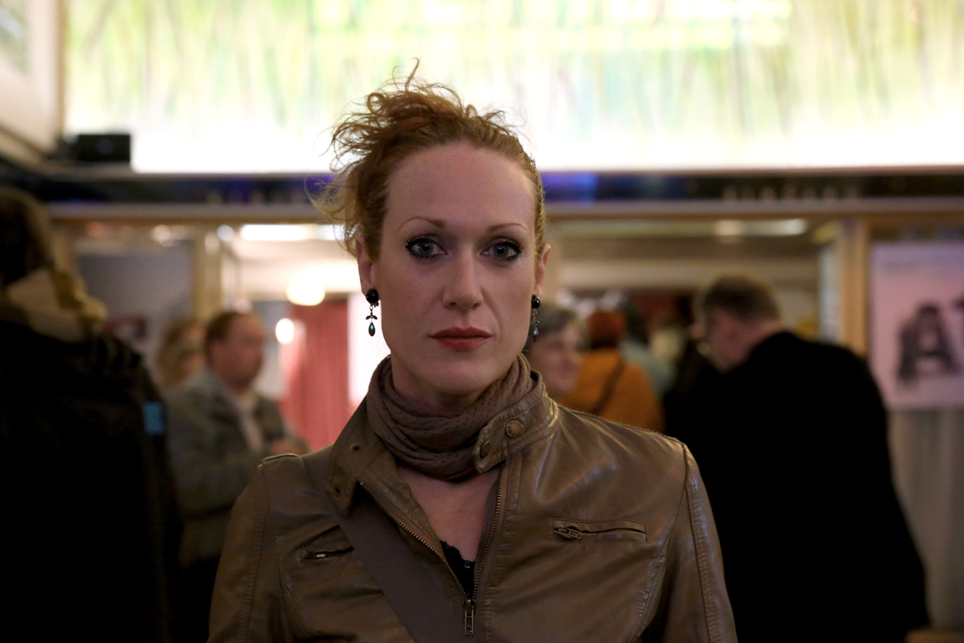 Tizza Covi, opening night of Vienna International Film Festival 2013 (Gartenbaukino, Vienna, Austria).